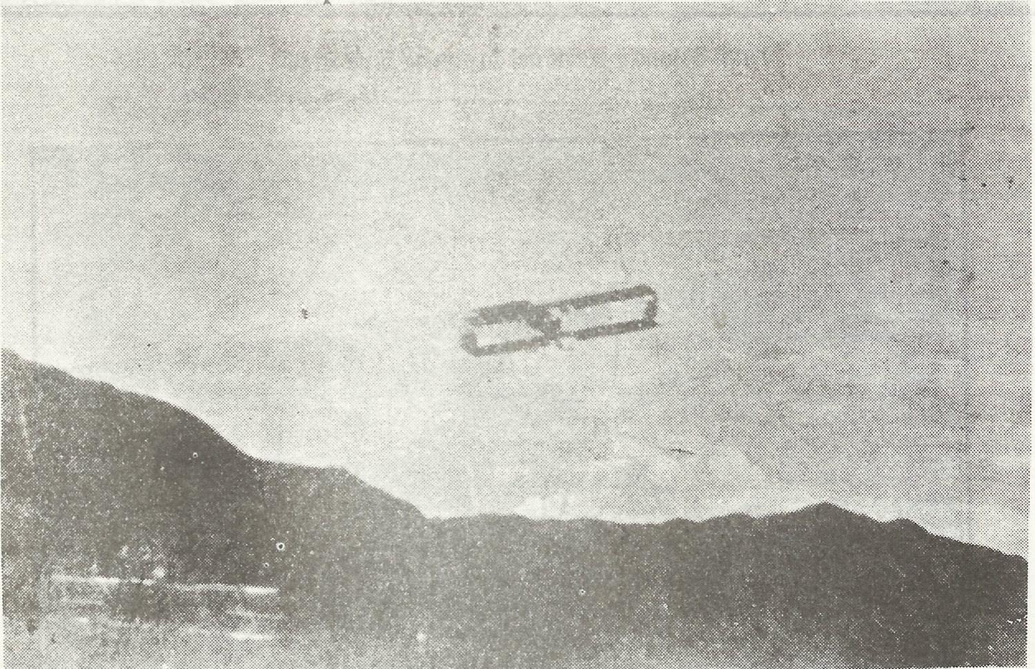 El aviador Frank Boland en su biplano "sin-cola", optando por la copa de "El Universal", 6 de Octubre de 1912. Abajo a la izquierda, el biplano "convencional" piloteado por Hoeflich, capotado en la pista. Foto de Luis F. Toro.